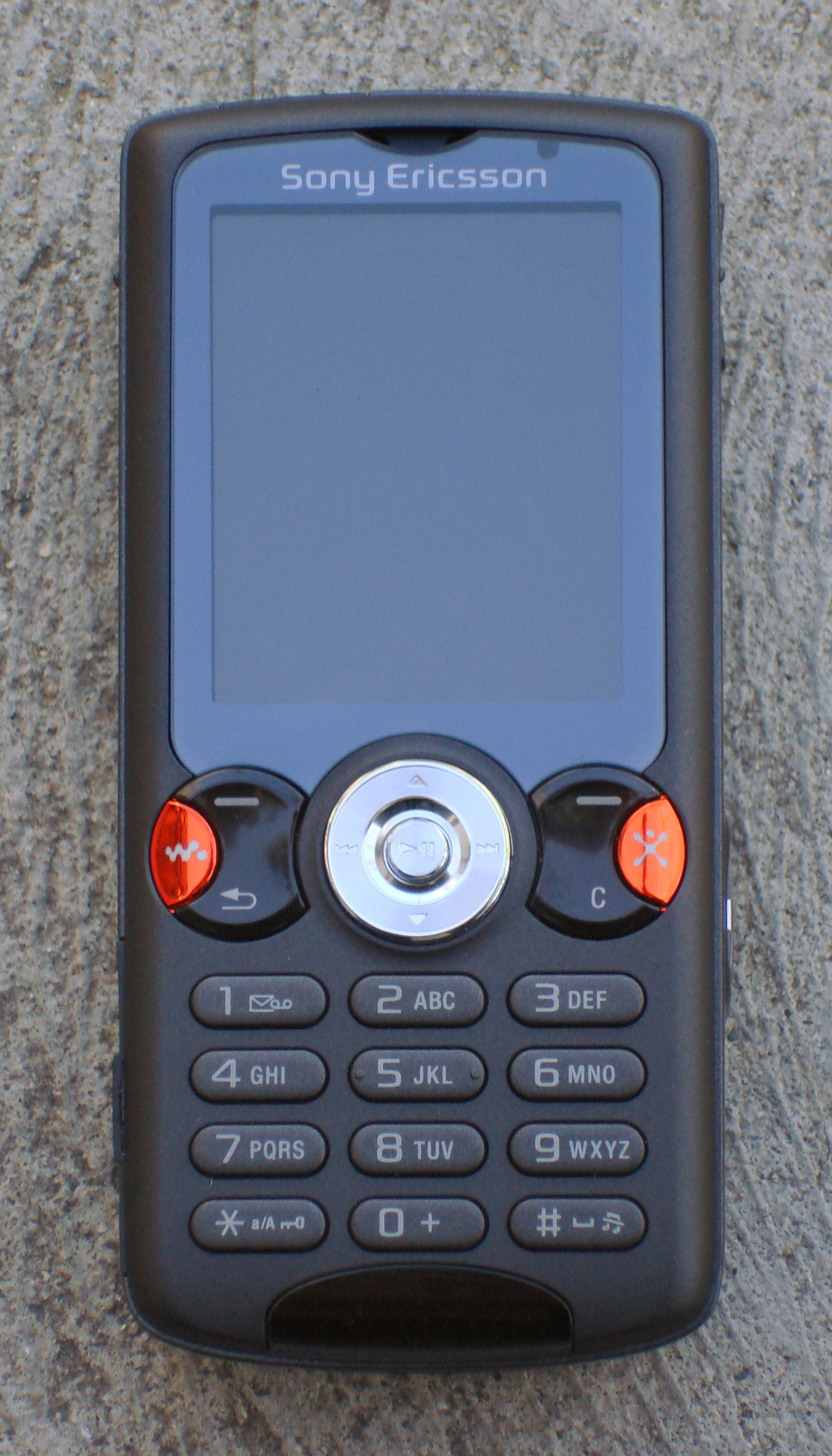 Sony Ericsson W810i camera phone. Camera used was a Sony Cyber-shot DSC-W100.